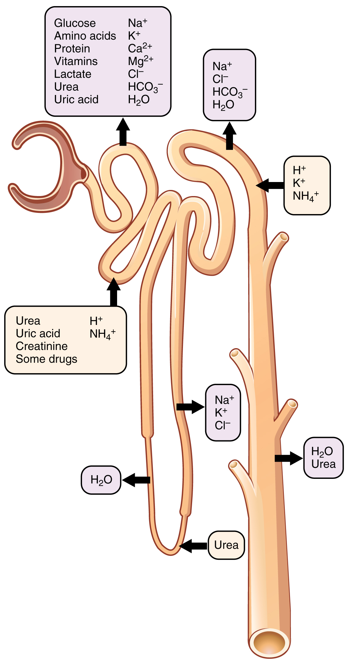 Illustration from Anatomy & Physiology, Connexions Web site. Jun 19, 2013.